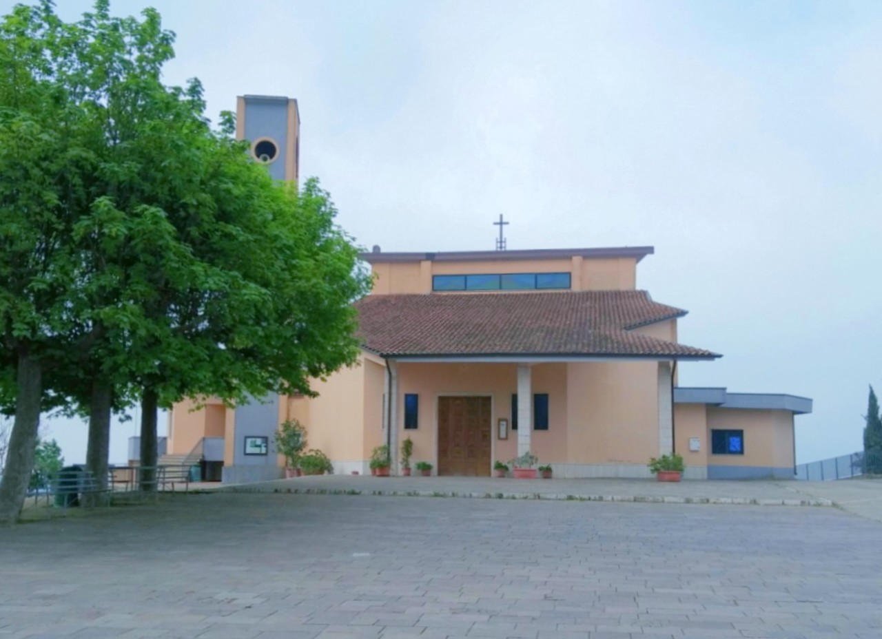 Saint Liberatore Sanctuary, Ariano Irpino (Italy)